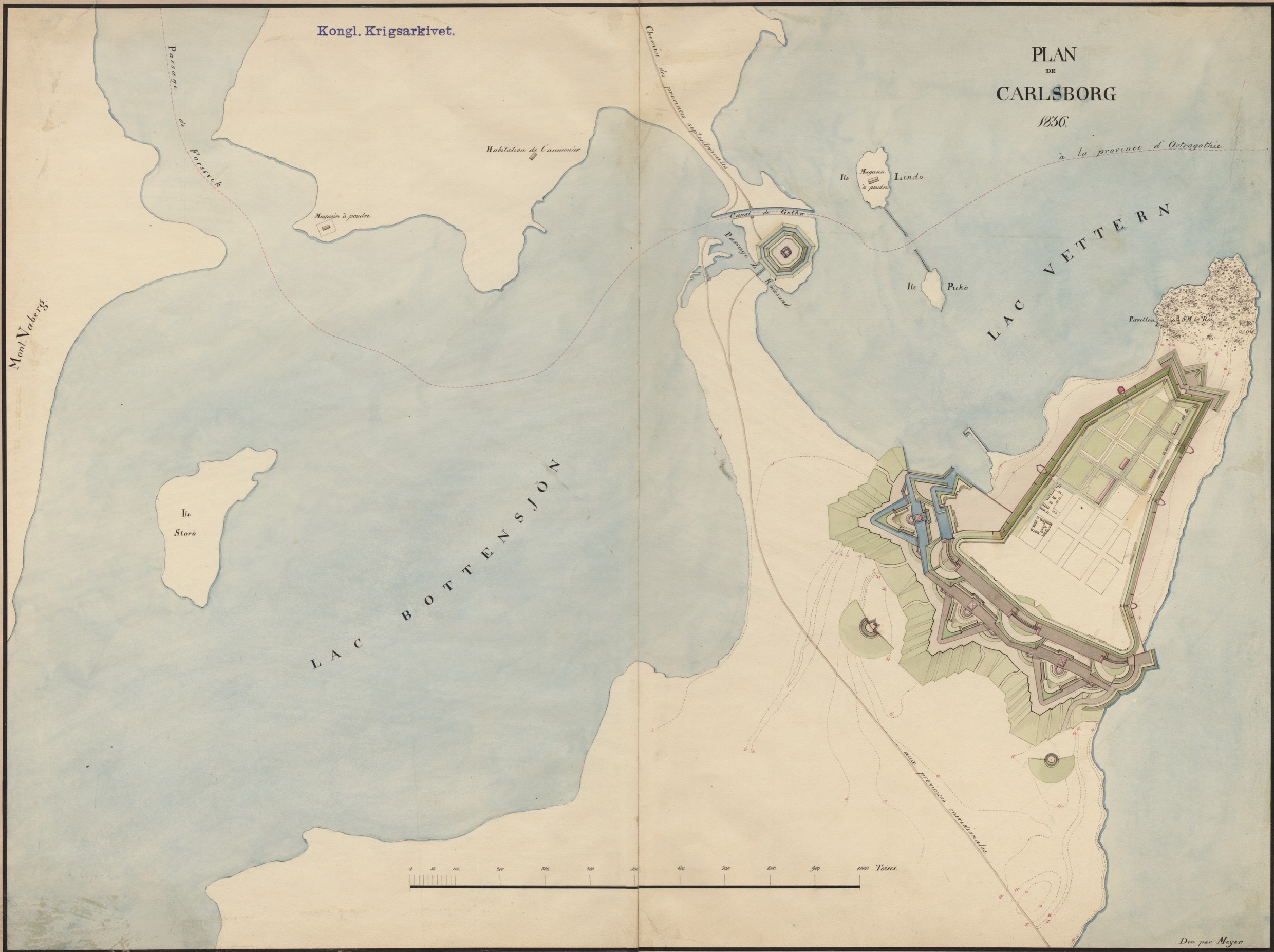 Planned fortifications at Karlsborg fortress, Sweden.